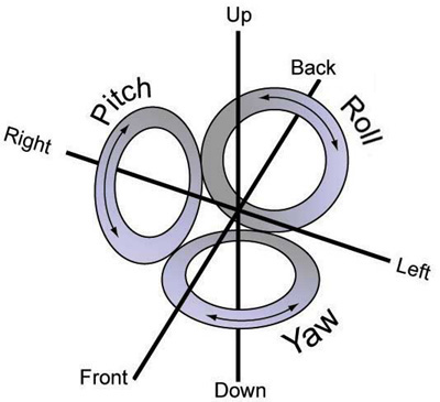 a diagram of parts of the balance-sensing apparatus of the inner ear